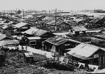 Minato Village in Okinawa